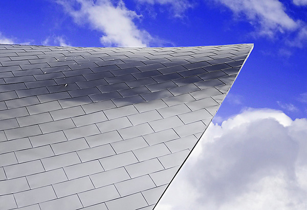 The roof of the city library in Tromsø in Norway is covered in titanium.